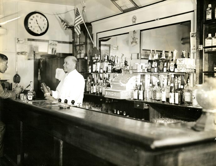 Bar at Hi-Hat Inn, interior Location: Lawnside County: Camden Format: 8x10 BW Photographer: Unknown Notes: On back: "The bar is on of five similar sustaining influences in the tax office of Lawnside paying $350 a year fee"